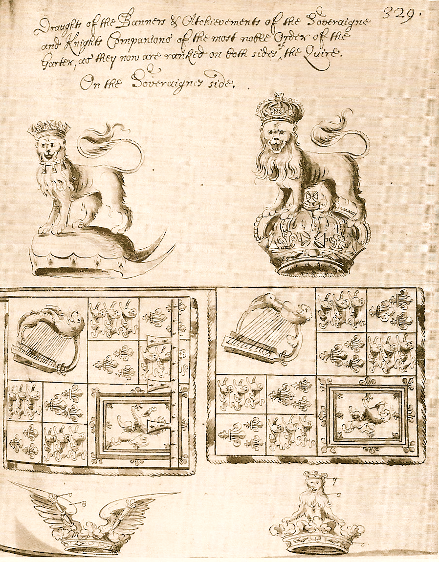 Visitation of Berkshire, 1664-6; garter banners and crests from St George's Chapel, Windsor, showing the banners of Charles II and James II (as Duke of York). The Visitation was carried out by Elias Ashmole (1617-92), Windsor Herald as Deputy to Clarenceux.